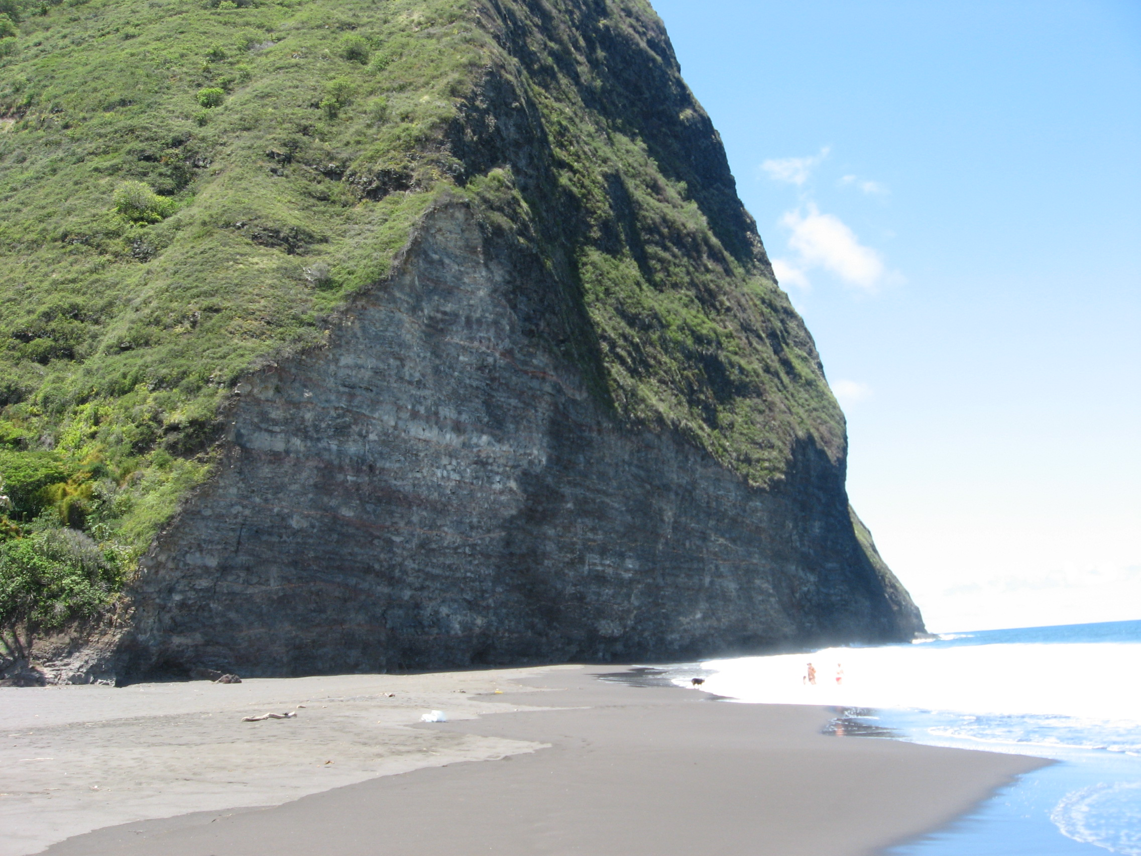 view from the beach of the Waipio Valley in Hawaii